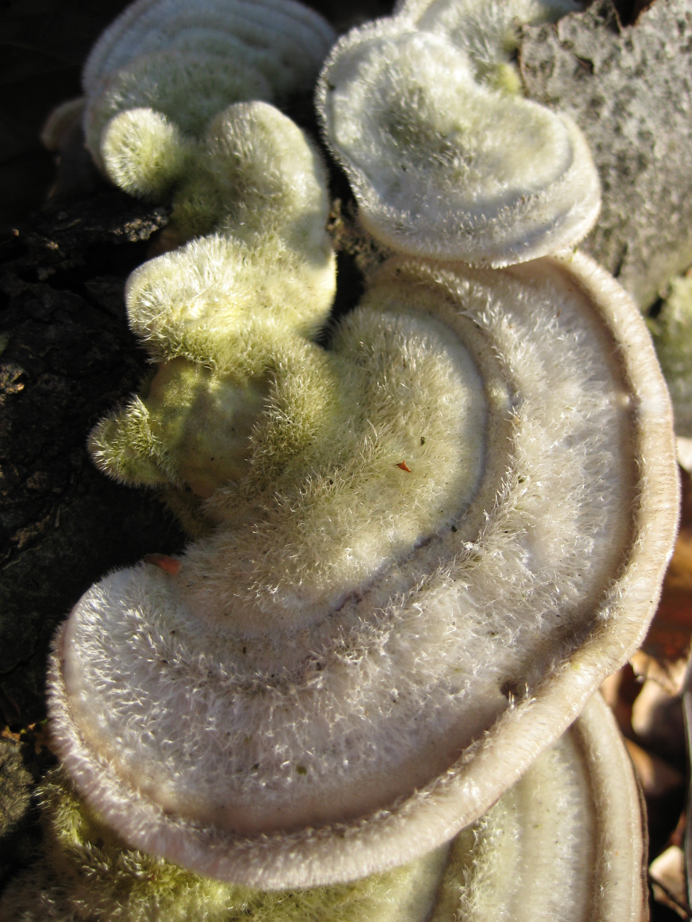 Bracket fungus